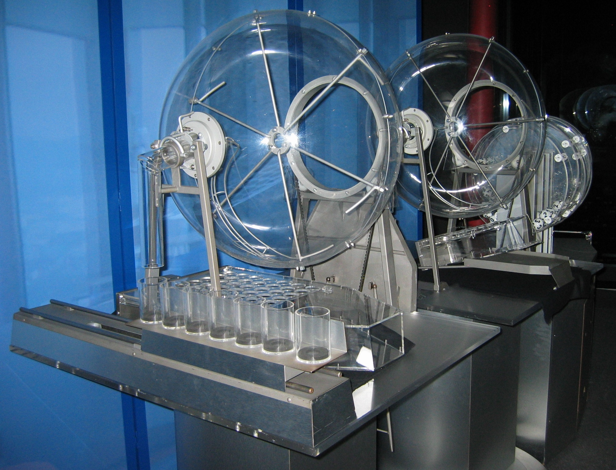 Equipment of Ziehung der Lottozahlen, Zusatzzahl, and Spiel 77 (lottery) at the Television studio of Hessischer Rundfunk in Main Tower, Frankfurt am Main